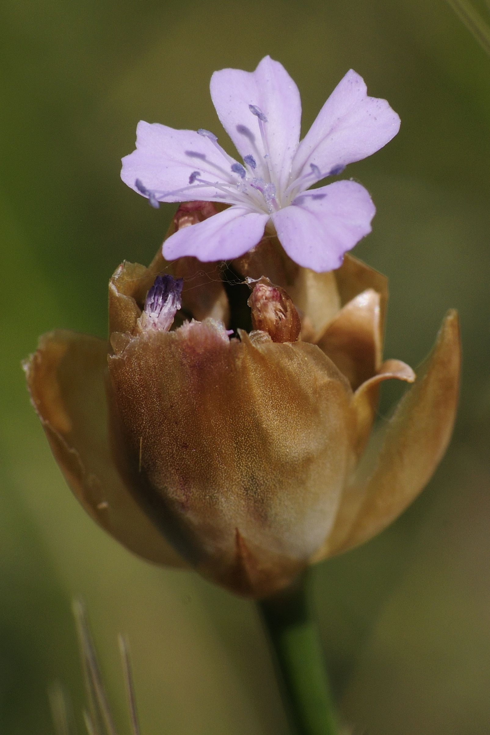 Please report references to .